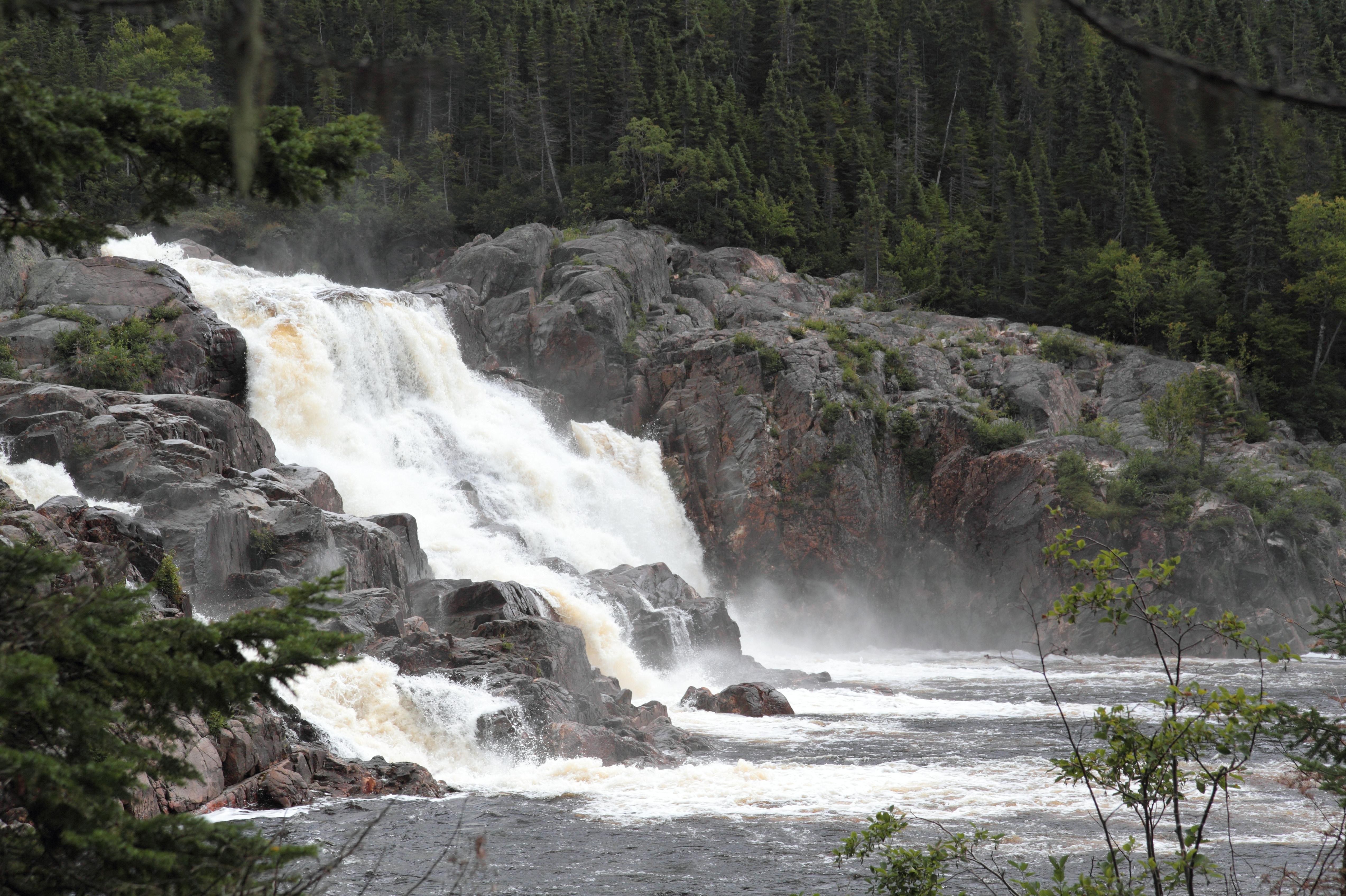 Grand Sault falls on Au Tonnerre river, Rivière-au-Tonnerre, Quebec, Canada